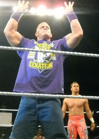 John Cena in his purple crap